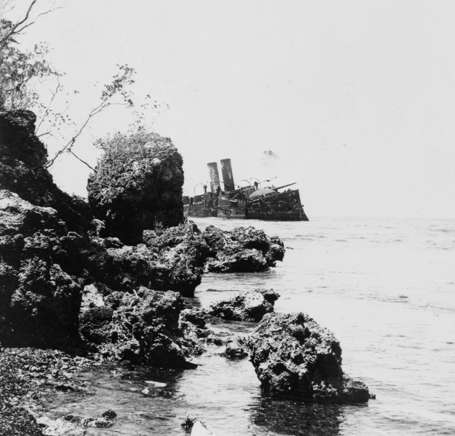 The Spanish cruiser Almirante Oquendo as she lies wrecked on the southern coast of Cuba Meadville , circa 1899. She took part in the Battle of Santiago de Cuba, fought between Spain and the United States on 3 July 1898. Almirante Oquendo was hit repeatedly by the USS Iowa and driven out of the battle by the premature detonation of a shell stuck in a defective breech-block mechanism of an 280 mm turret. A boiler explosion finished her, and she was ordered scuttled and burned by her mortally wounded Captain Lazaga.